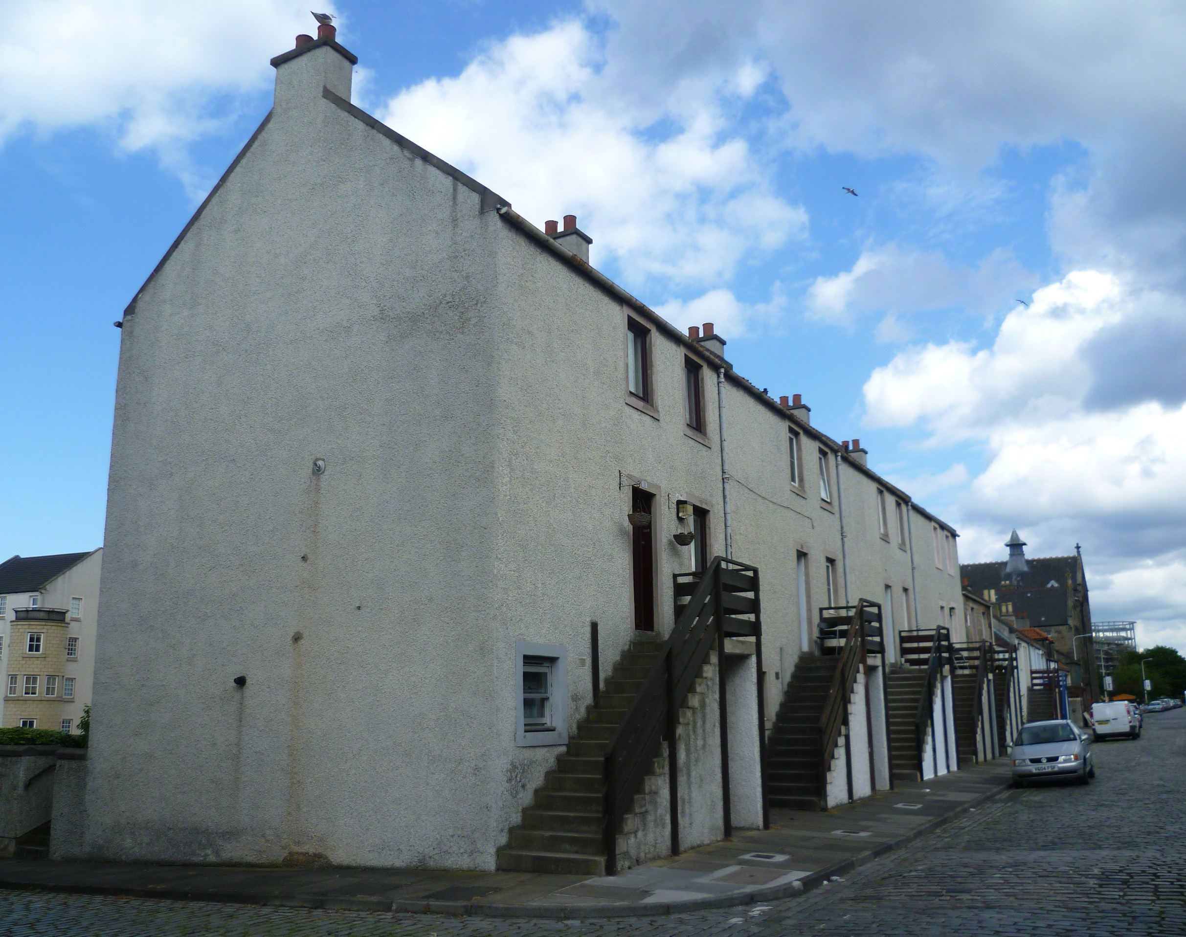 Houses in Main Street, Newhaven